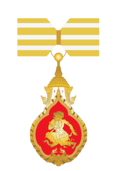 Order of Civic Merit of Laos Commander insignia